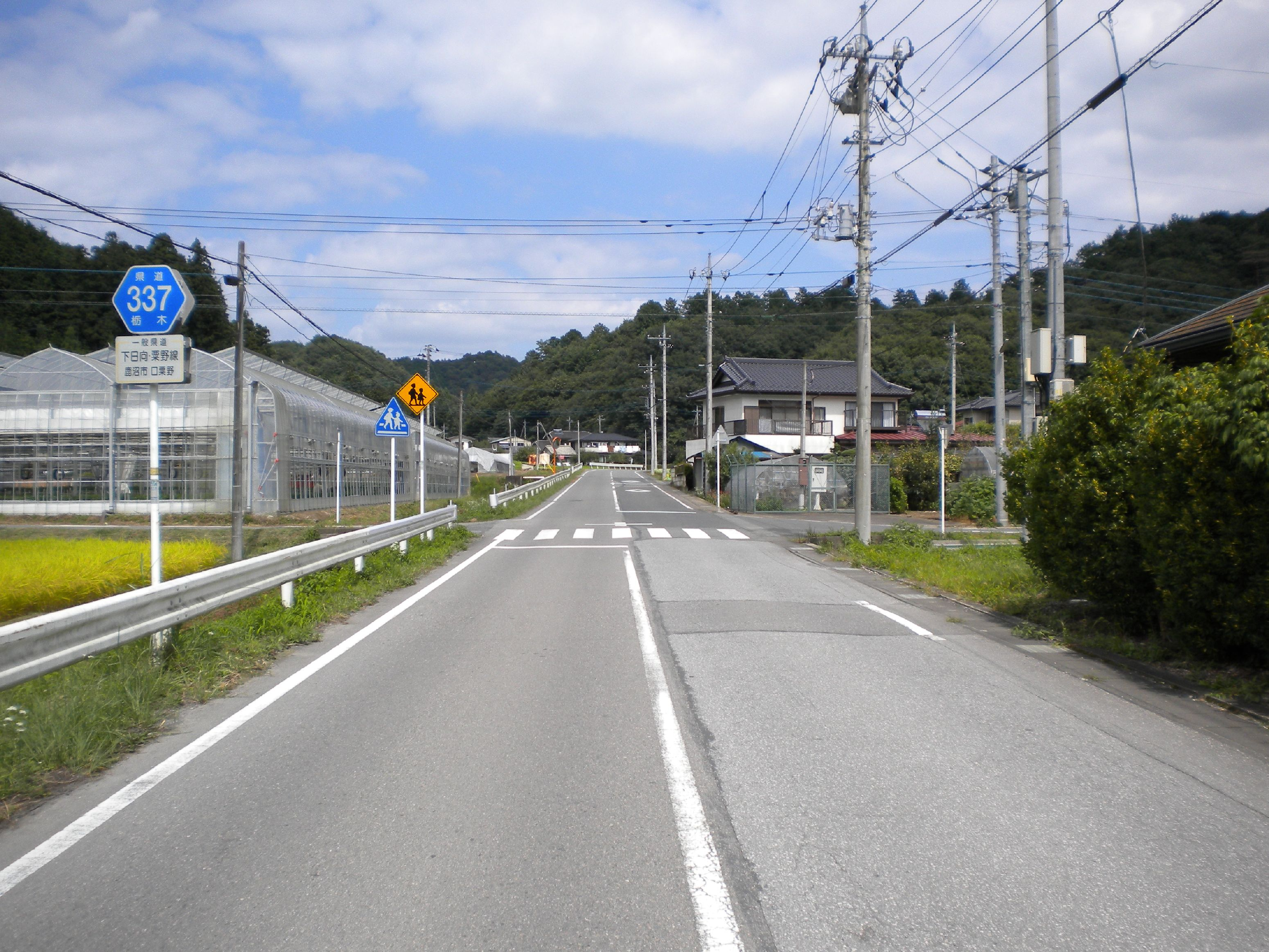 The Tochigi Prefectural Road Route 337 in Kuchiawano, Kanuma City